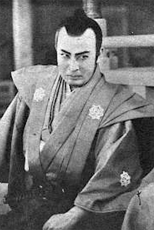 Utaemon Ichikawa (1907–99)